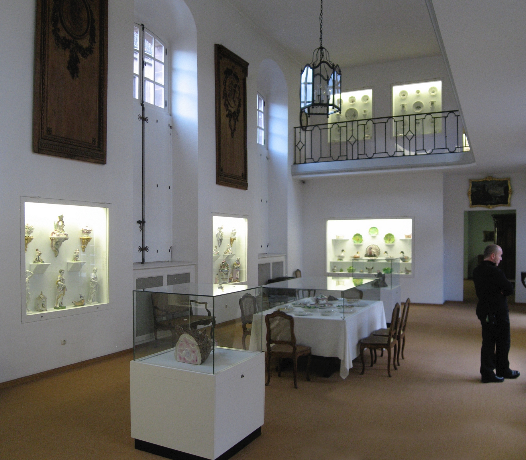 Porcelain collection of Paul Hannong, in the Musée des arts décoratifs de Strasbourg located on the ground-floor of Palais Rohan.